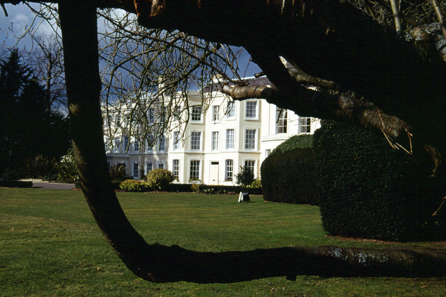 Burnham Beeches Hotel. This house was originally built in 1727 as a family residence, but is now a hotel.